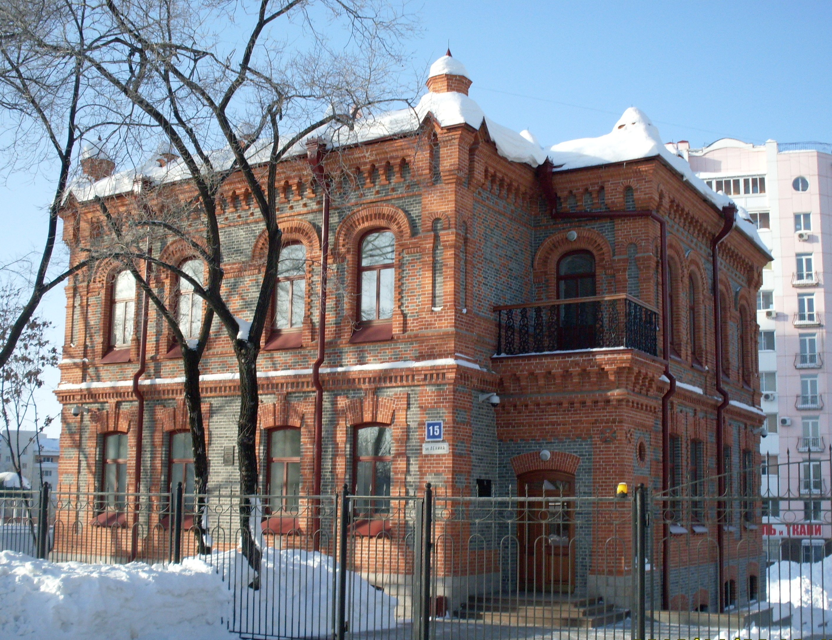 Geological Museum in Khabarovsk (Russia)